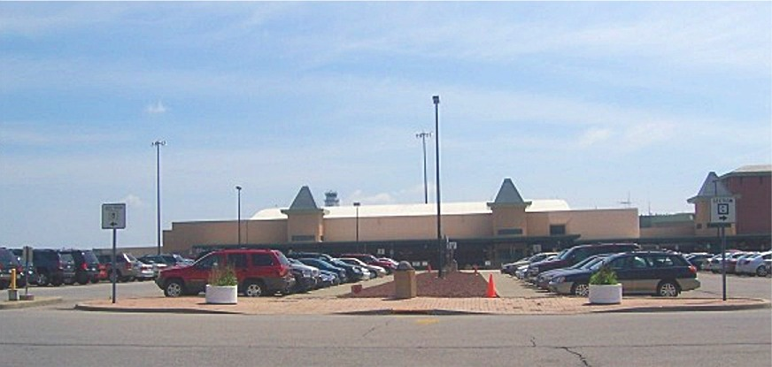 Passenger terminal at Stewart International Airport, Newburgh, NY, USA. Photo taken by Daniel Case 2005-06-13